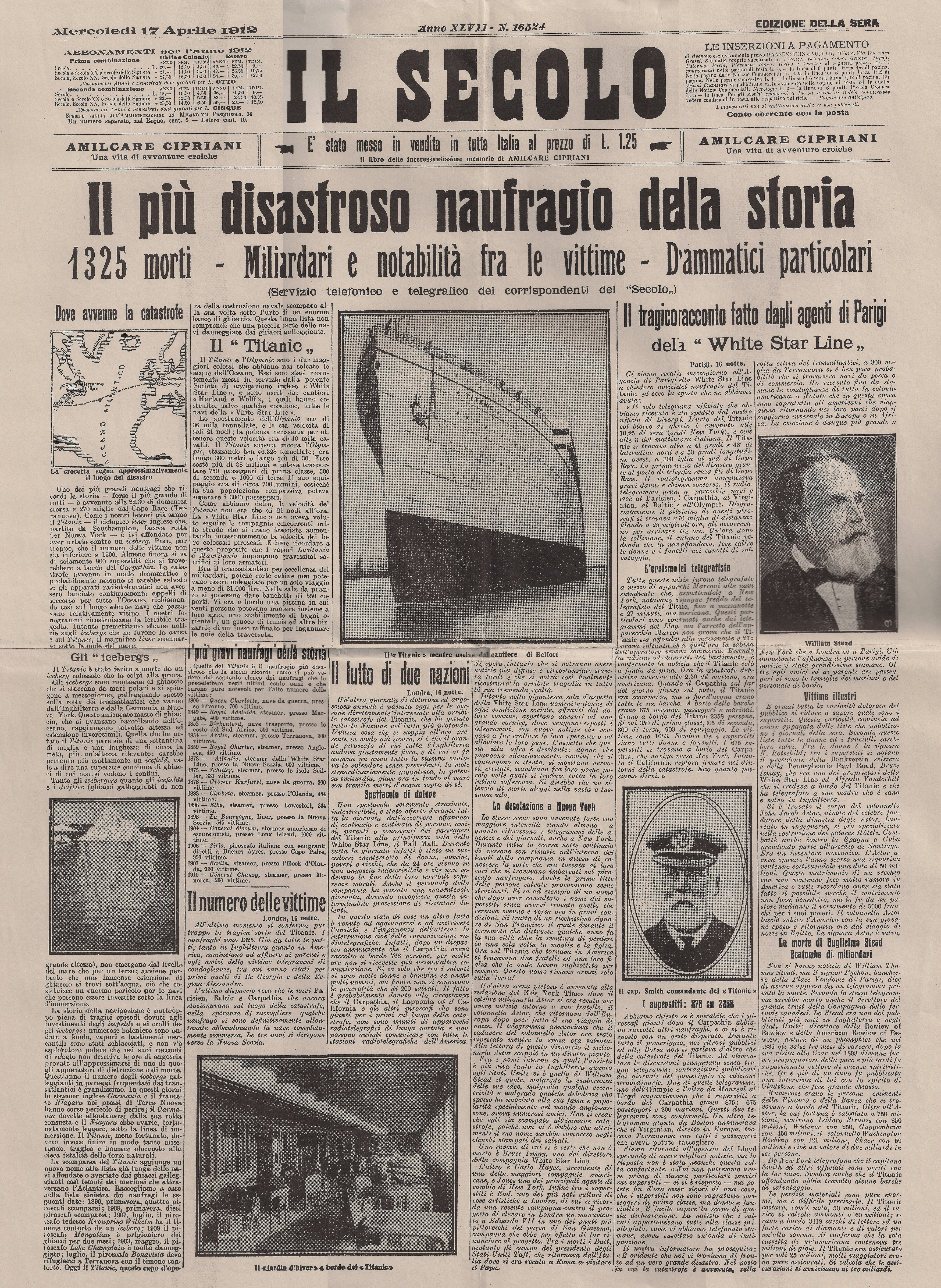 Front page of italian newspaper Il secolo of 17 april 1912 focused on the Titanic shipwreck, with the headline The most disastrous shipwreck in history